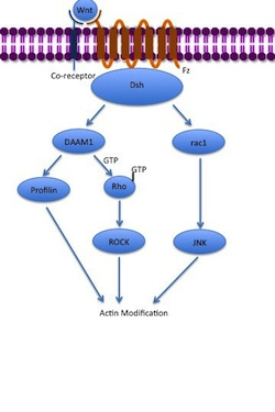 Diagram of the noncanonical Wnt Planar Cell Polarity pathway.